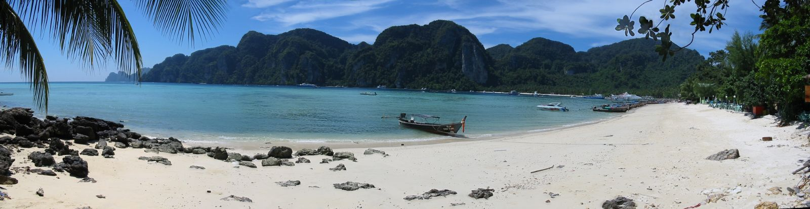 Phi-Phi beach on a lovelly day in Thailand. November 2002